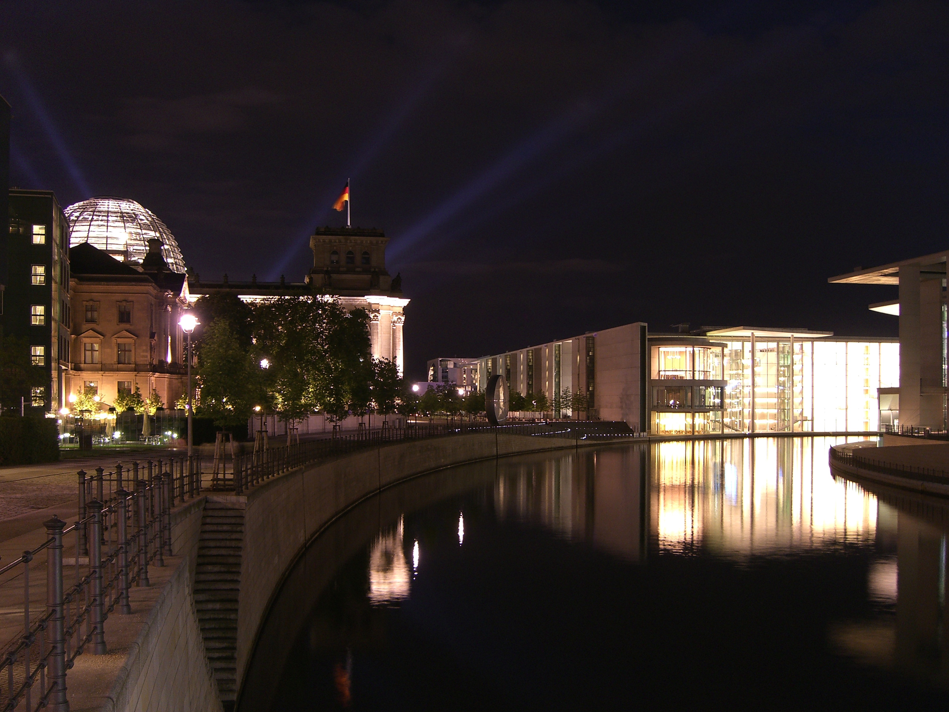 the river 'Spree' with government buildings in Berlin